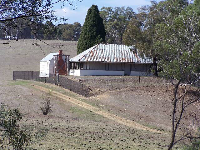 Pontville Homestead 2007